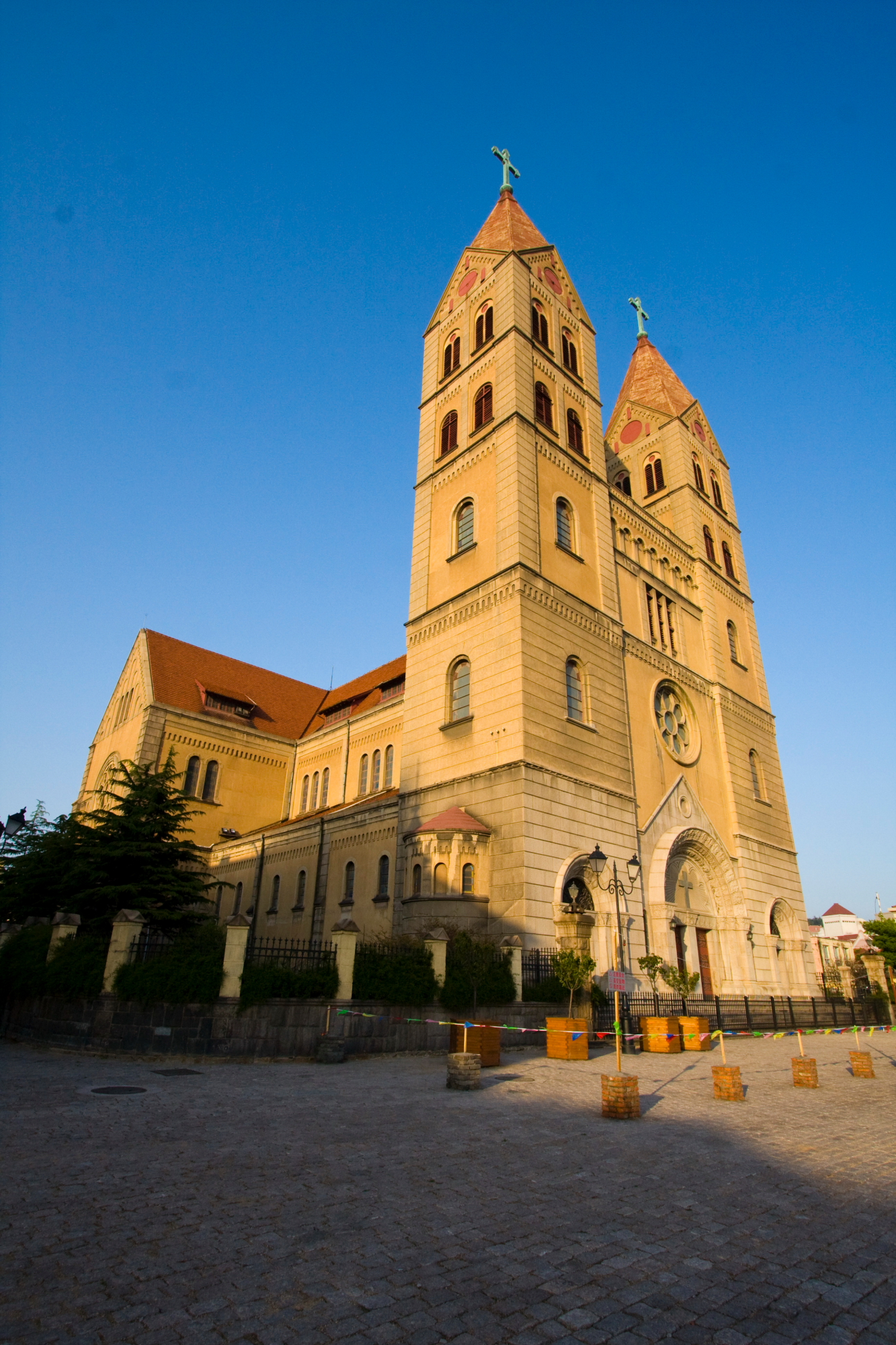 Catholic St. Michael's Cathedral in Qingdao, China